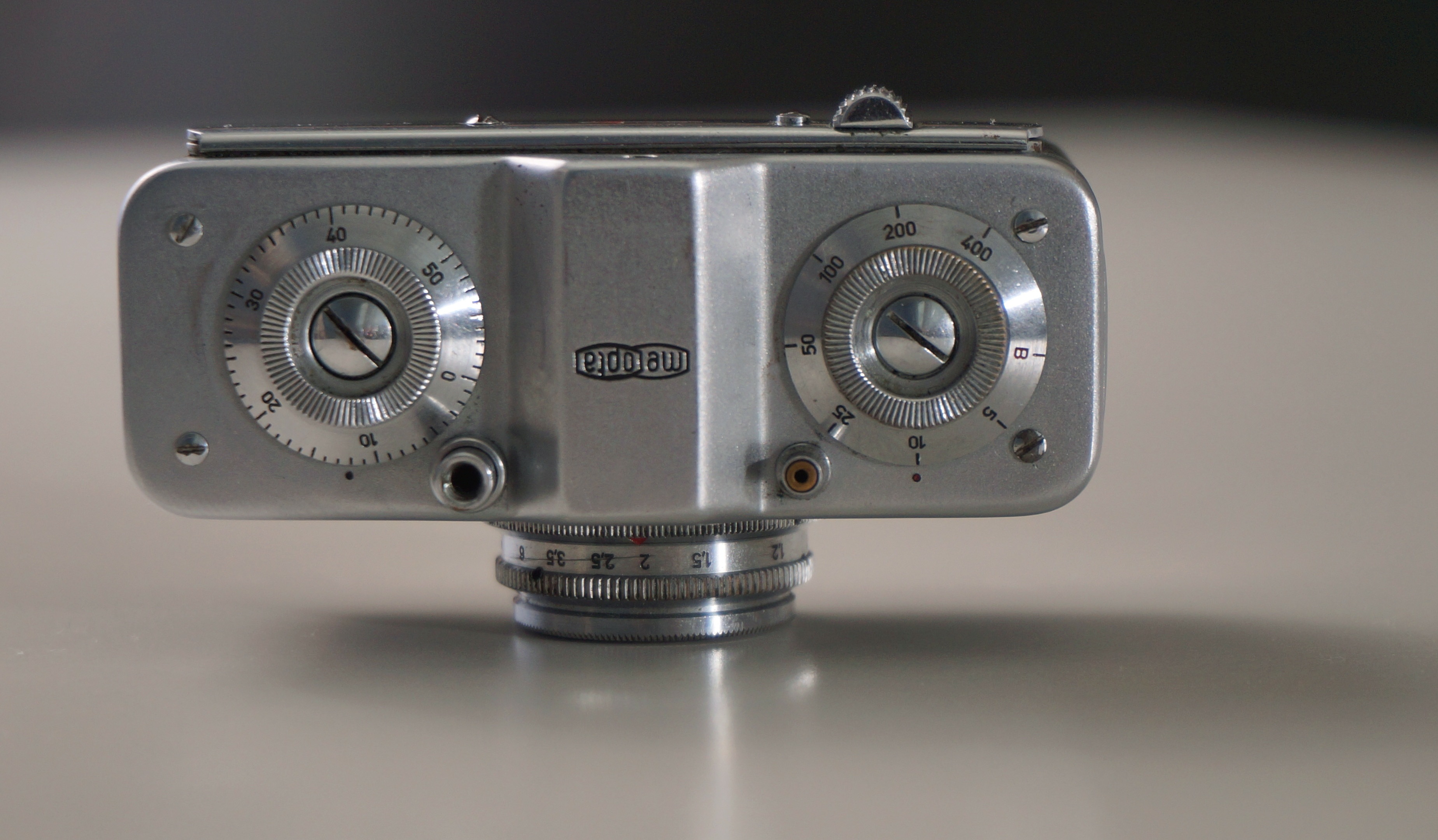 Czechoslovak camera Mikroma II